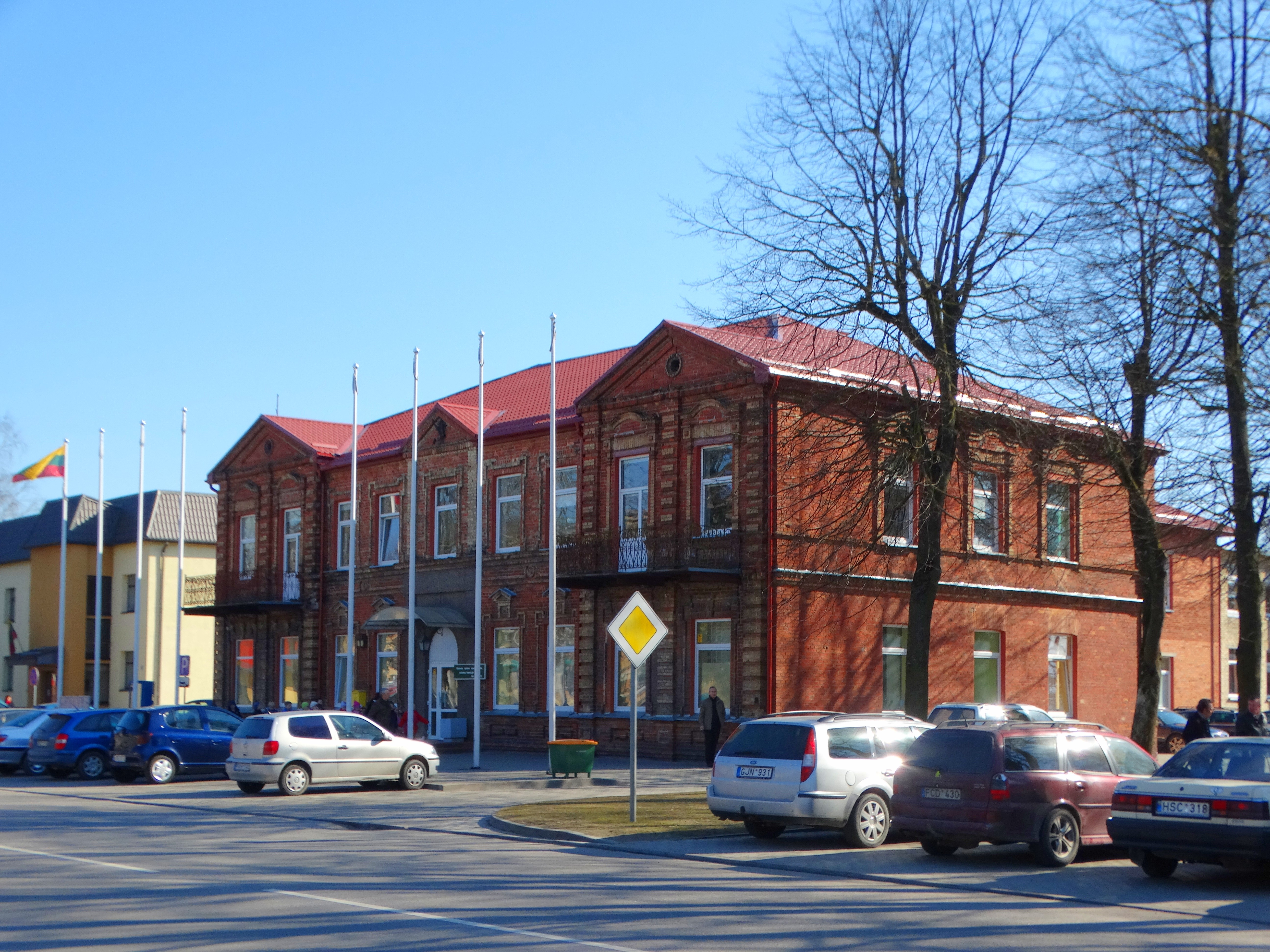 Municipality, Kelmė, Lithuania